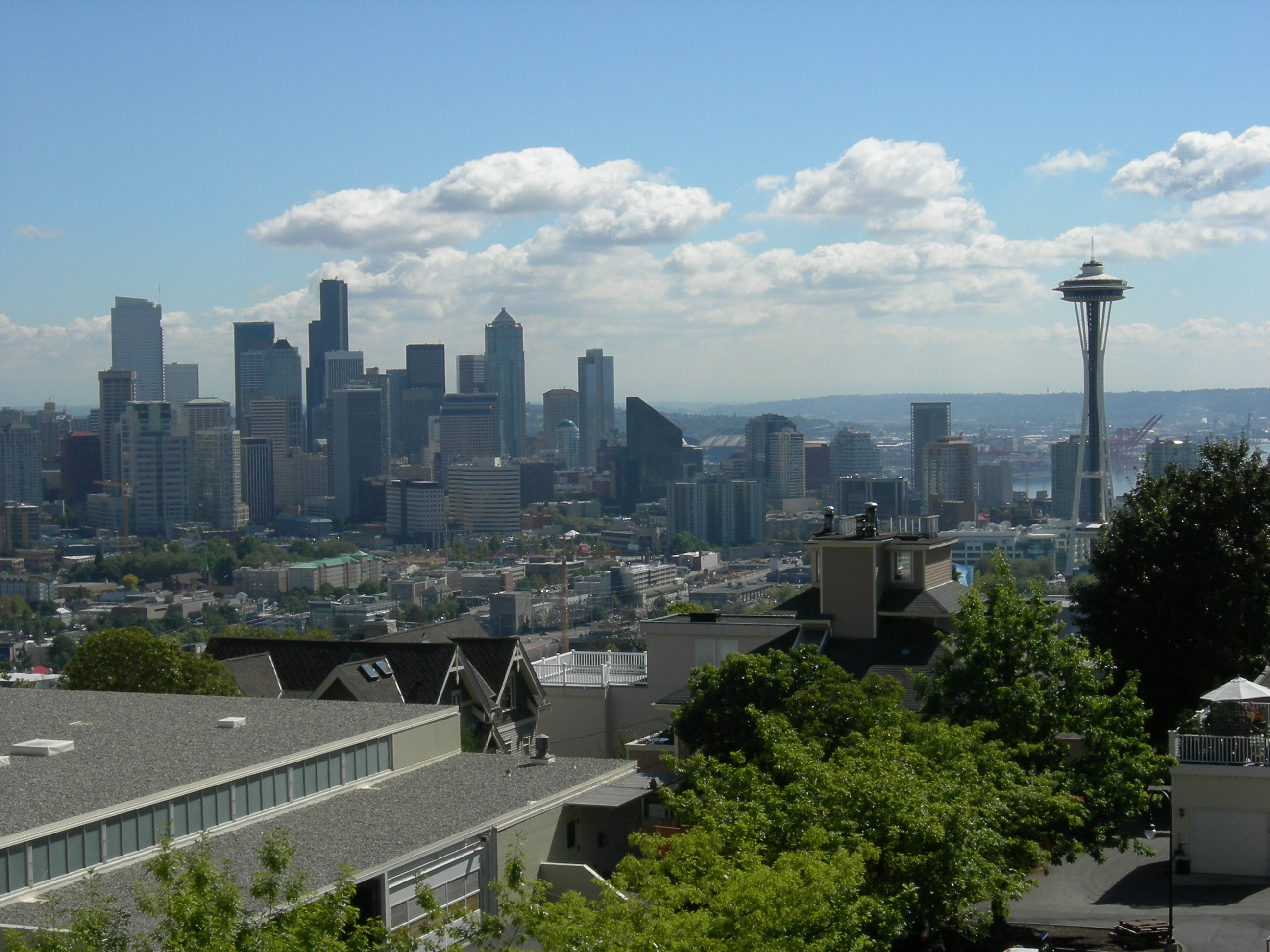 Seattle skyline seen from a rooftop garden in the former Queen Anne High School, 215 Galer St., Queen Anne Hill, Seattle, Washington. The building, now condominium apartments, is on the National Register of Historic Places, ID #85002916.